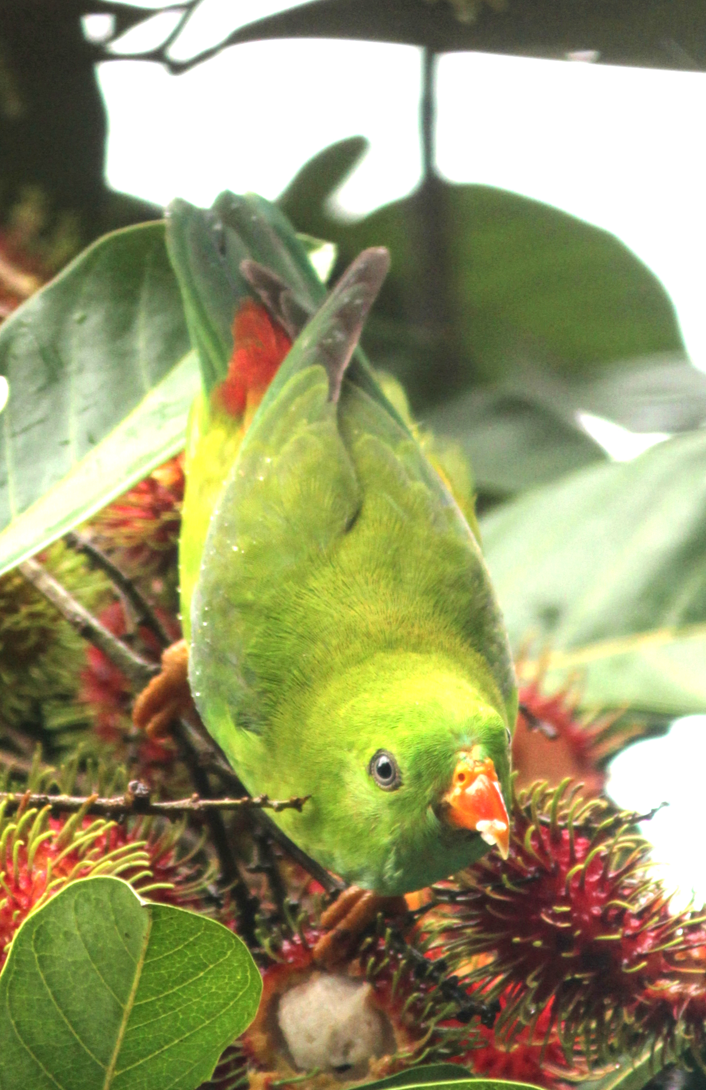 A Vernal hanging parrot (Loriculus vernalis) in a Rambutan. Photographed near Kanjirappally.